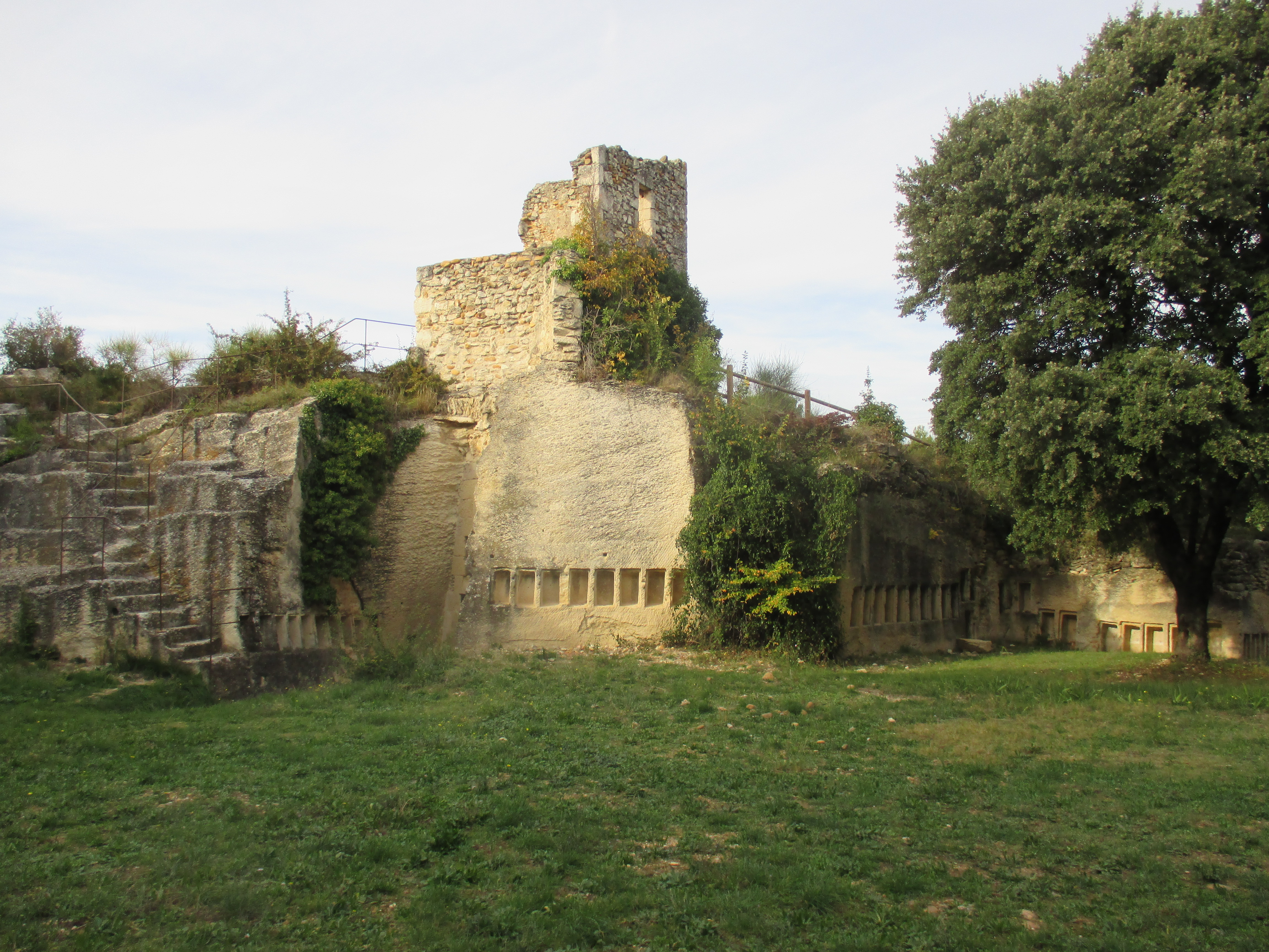 Rucher de Montagnac, in Montfrin (Gard).